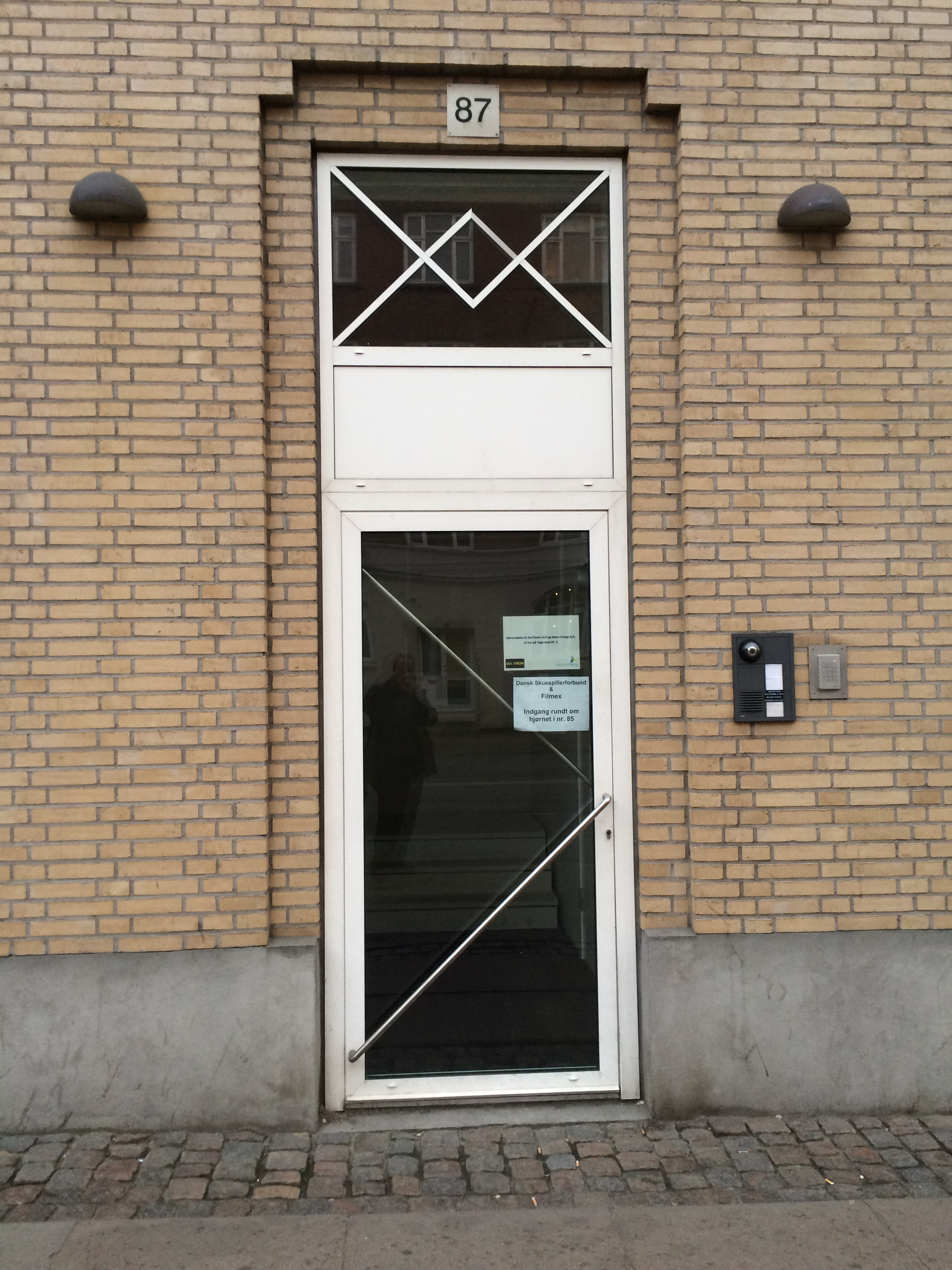 The entrance to the offices of Natur-Energi